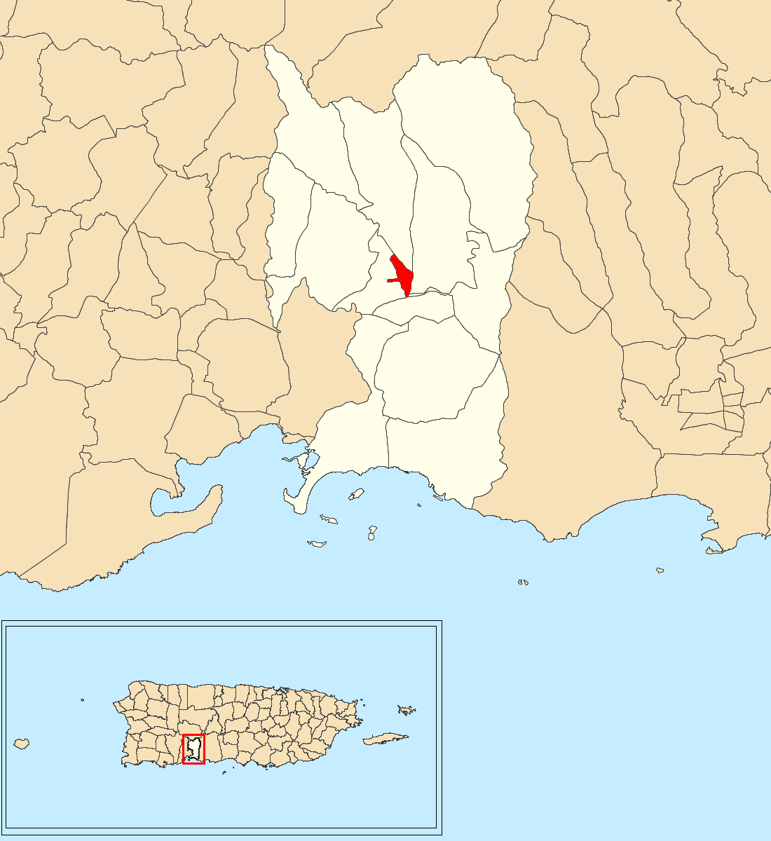 Peñuelas barrio-pueblo, Peñuelas, Puerto Rico locator map